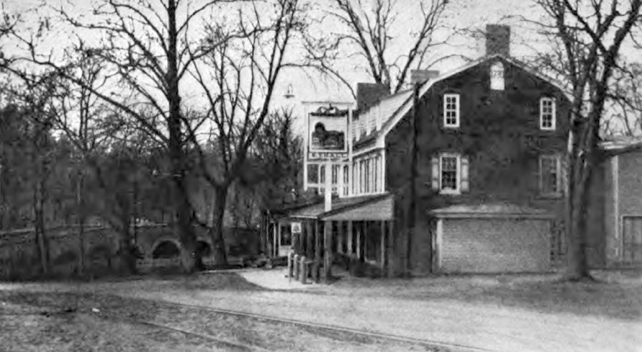 Photograph of the Red Lion Tavern, York County, Pennsylvania as it appeared circa 1915